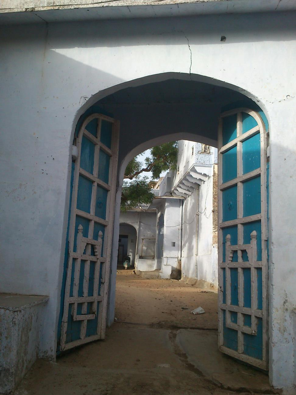 Image of Bagholi haveli.